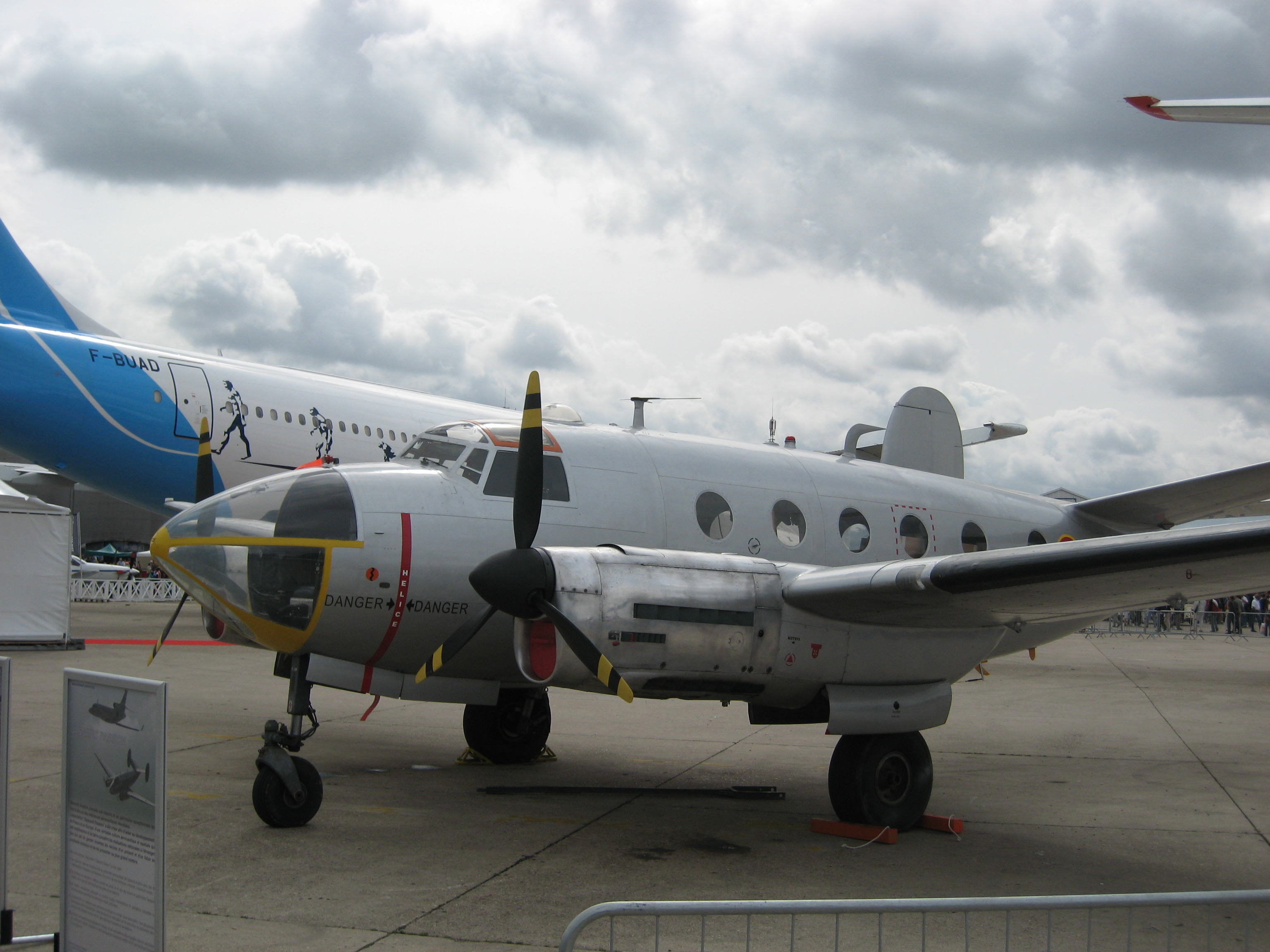 Dassault MD 311 Flamant training plane at Paris Air Show 2007.